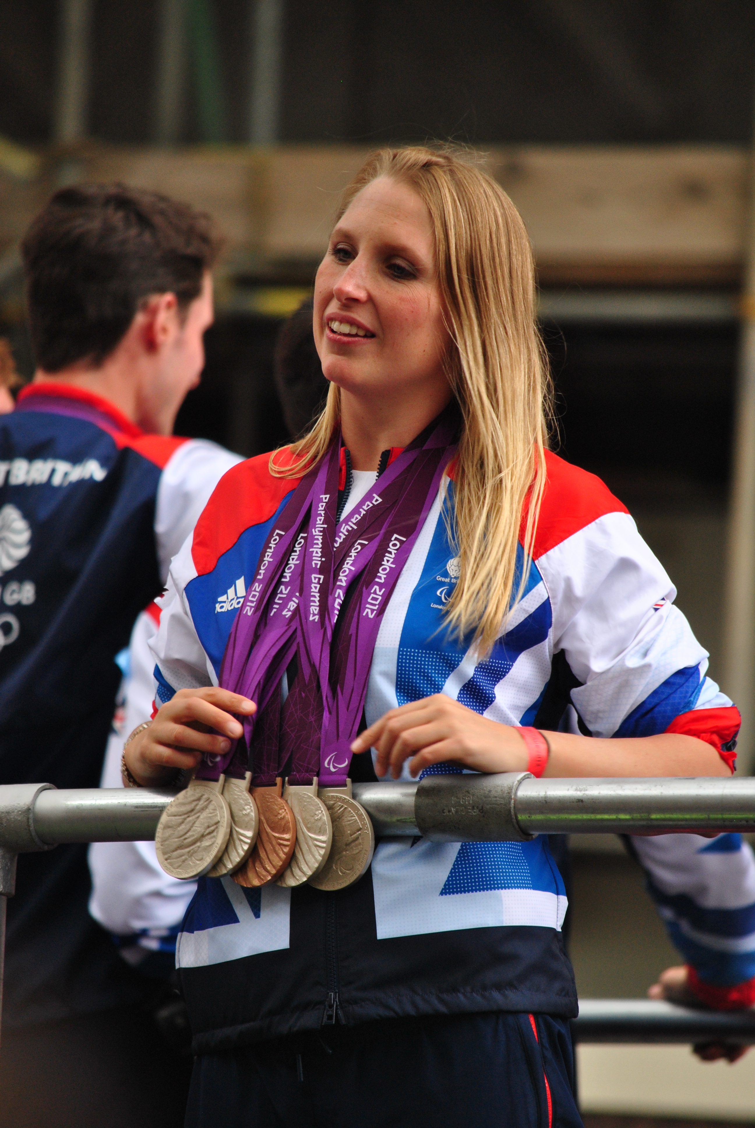 British Paralympic swimmer Stephanie Millward at the Our Greatest Team Parade in central London on 10 September 2012